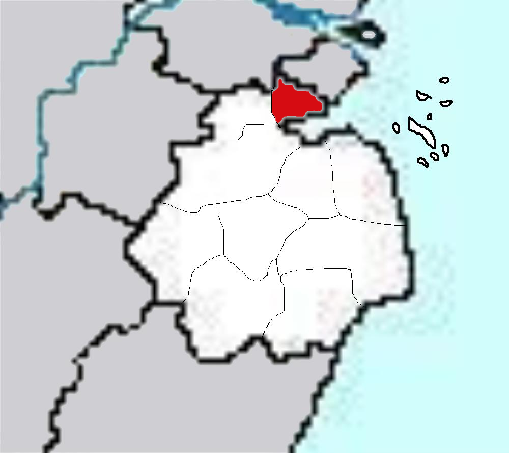 Maps of Zhejiang Province of China